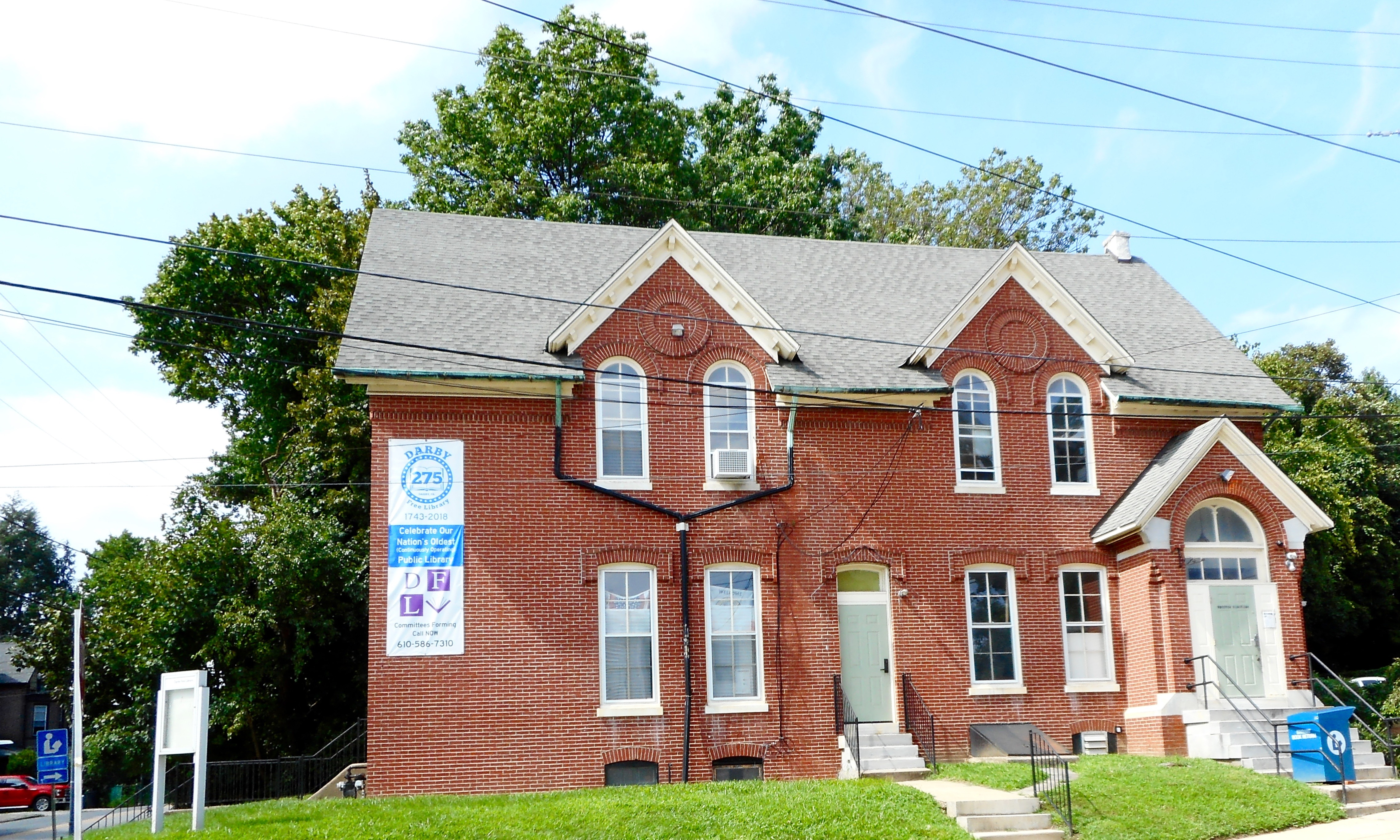 Darby Free Library in Darby, Delaware County, Pennsylvania